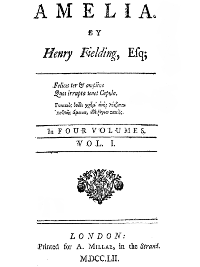 Fielding, Henry. Amelia. Eighteenth Century Collections Online. Author has been dead over 100 years.